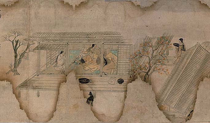 The Legendary Origins of Kokawadera (紙本著色粉河寺縁起, shihon choshoku Kokawadera engi). Handscroll (Emakimono), 30.8 cm、x 1984.2 cm. Color on paper. Located at Kokawadera (粉河寺), Kinokawa, Wakayama.